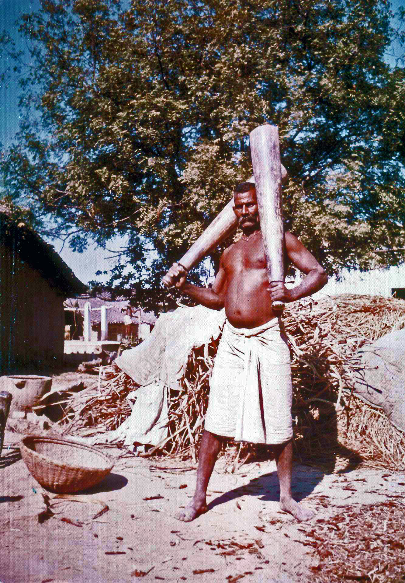 I am re-uploading this image which i took myself after sharpening it and restoring some of the colour - it is also on Wikipedia